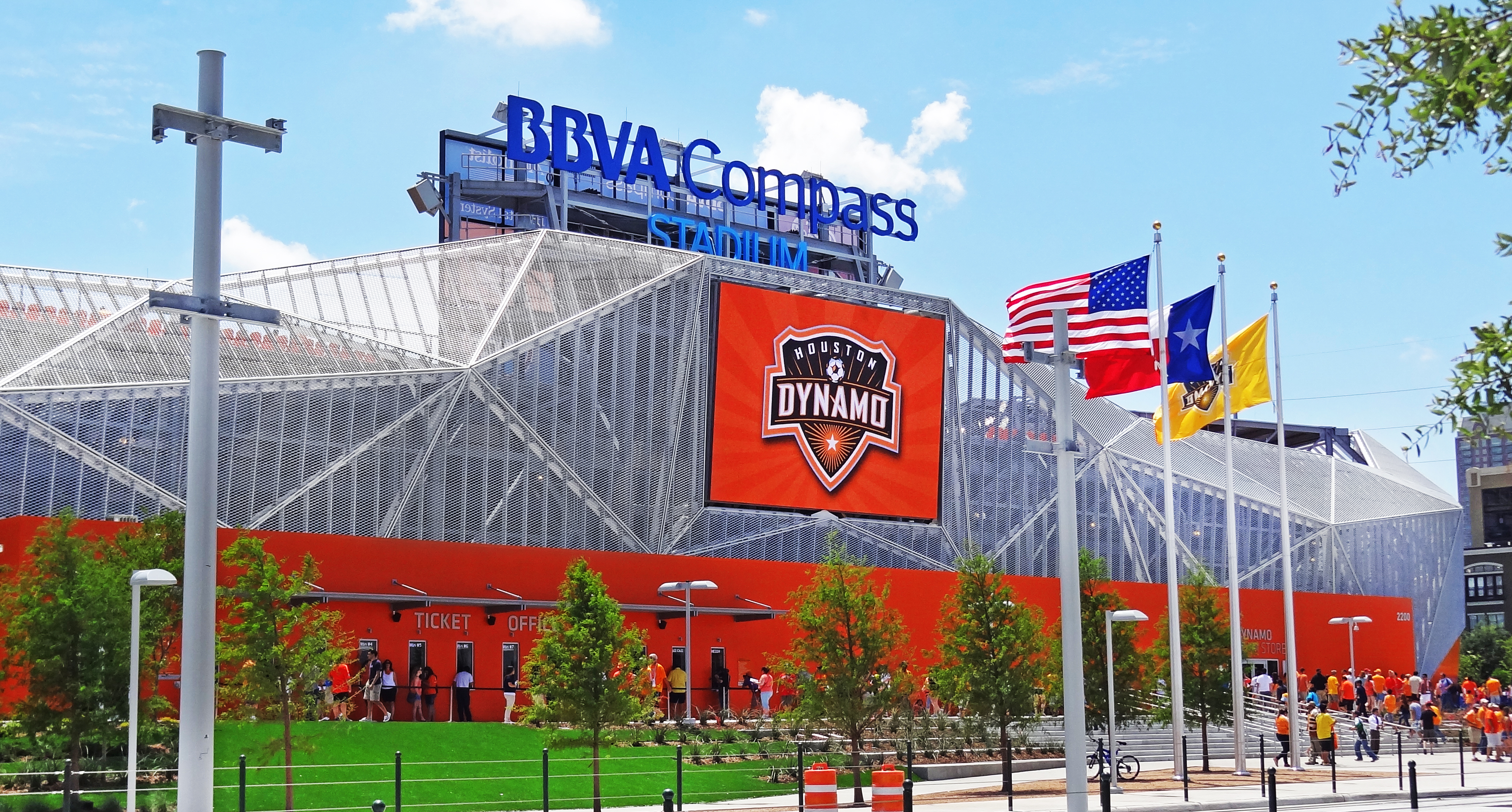 Photo by Paul Duron, North Facade of BBVA Compass Stadium along Texas Avenue in Houston's east end of downtown (EaDo)